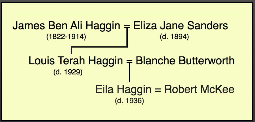 Simplified family tree of the creators and owners of the Haggin art collection now at the Haggin Museum, Stockton, CA.